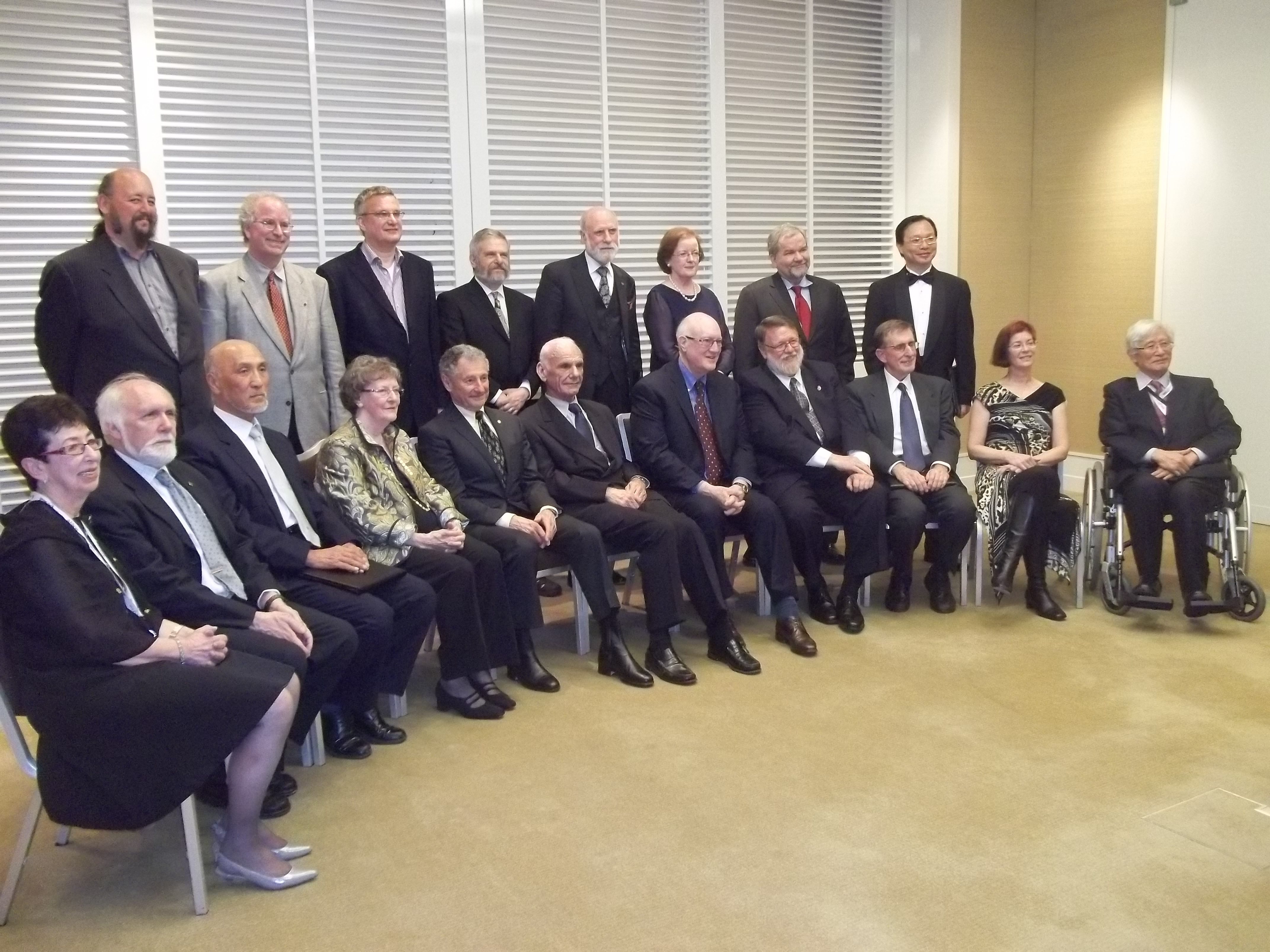 Internet Hall of Fame inductees 2012 Standing FLTR: Craig Newmark (?), Brewster Kahle, Daniel Karrenberg, Randy Bush, Vint Cerf, Patrice Lyons (for Bob Kahn), Philip Zimmermann, Tan Tin Wee Seated FLTR: Nancy Hafkin, John Klensin, Kilnam Chon, Elizabeth J. Feinler, Leonard Kleinrock, Lawrence Roberts, Steve Crocker, Raymond Tomlinson, Larry Landweber, Mitchell Baker, Toru Takahashi